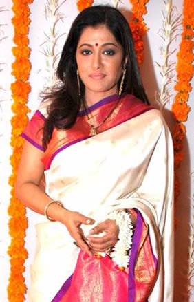 Sonali Rathod at Pran and Priya Dutt unveils Roop Kumar and Sonali Rathod's 'Ishtdev' album